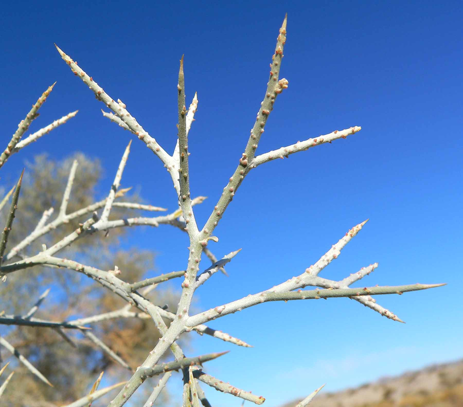 Psorothamnus spinosus in wash east of the Dead Mountains in Nevada near where the Needles Highway crosses into California